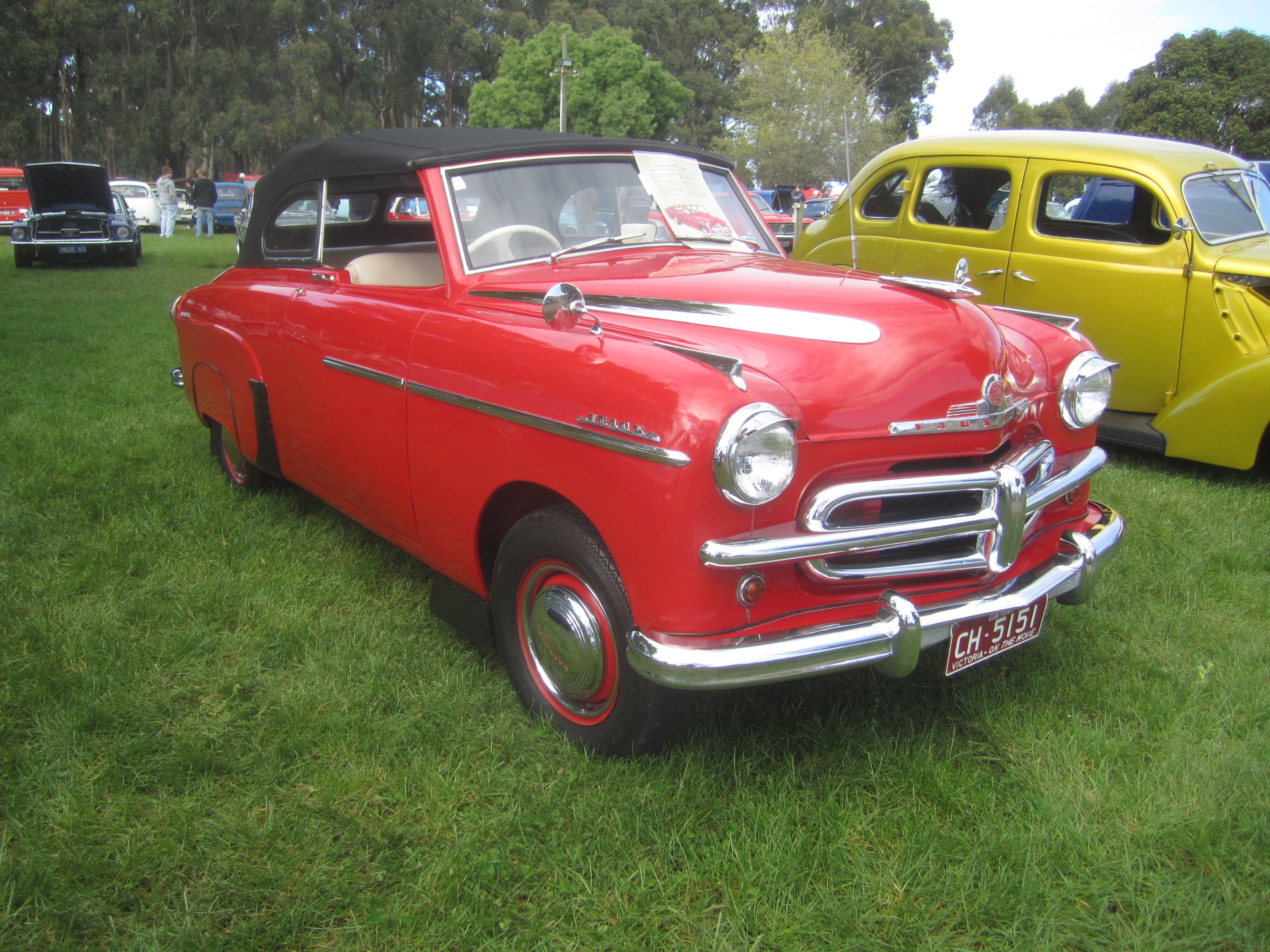 The EIP was built from 1951-57 with facelifts (new grilles) in 1955 and 1957. Available as the 4 cyl Wyvern, 6 cyl Velox and upmarket Cresta. Engine; 2262cc 6 cyl